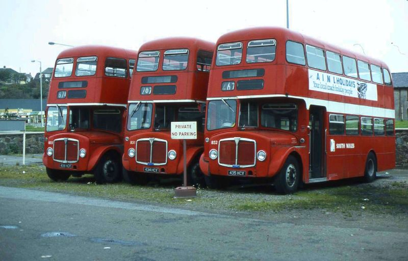 South Wales Transport Buses in Haverfodwest. October 1980. South Wales Transport operated in western part of South Wales. They were based in Swansea. A Willowbrook body built in 1963.